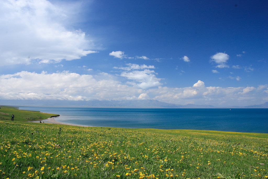 Yili, Xinjiang, China Also named Sayram Lake There will be more and more yellow flowers covering the lakefront by end of May. I captured at another corner of the lakefront.